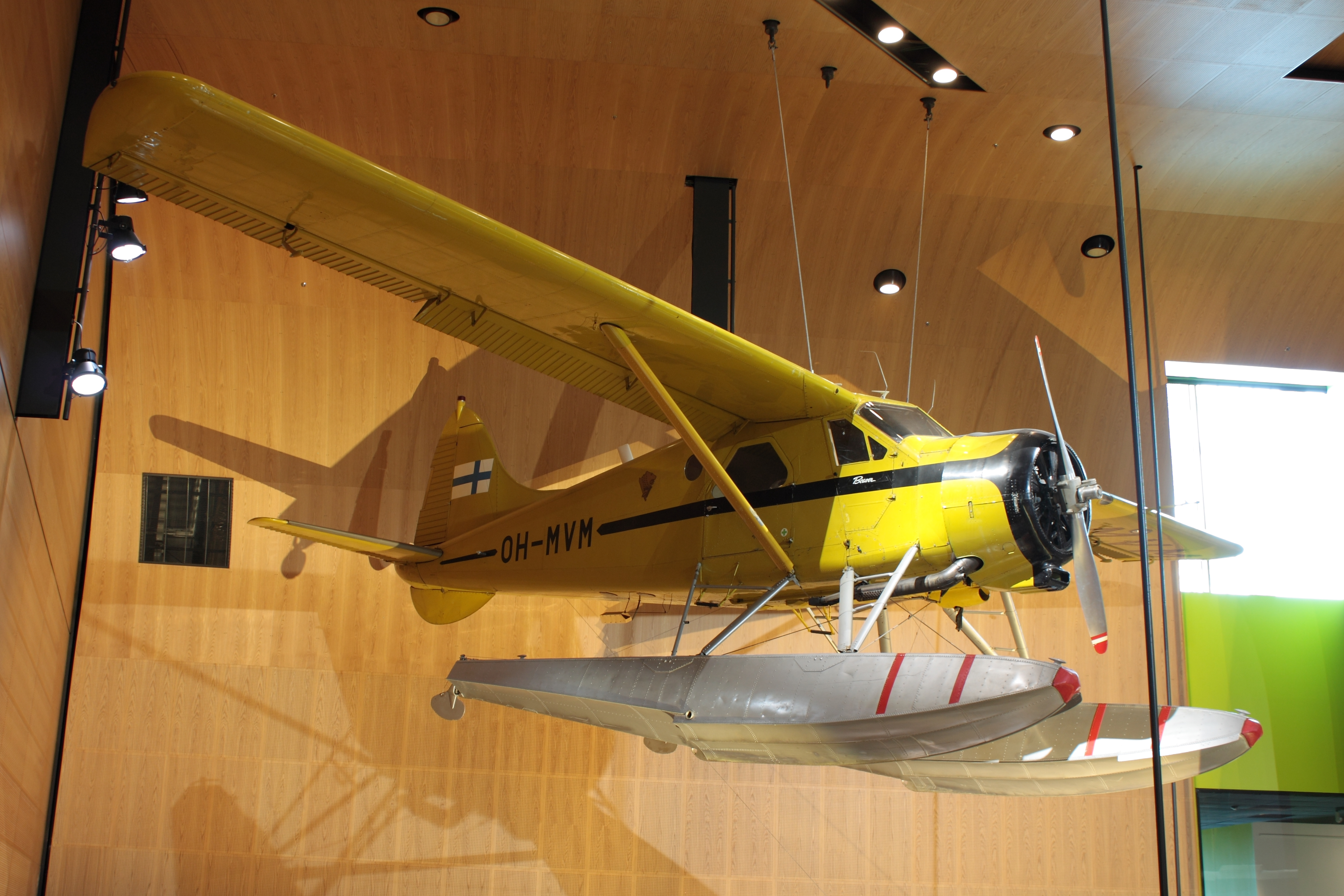 DHC-2 Beaver OH-MVM in Maritime Centre Vellamo in Kotka, Finland. The plane has been used by Finnish Border Guard.